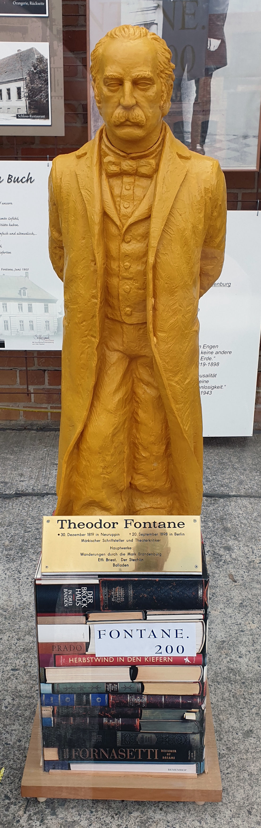 Sculpture, "Theodor Fontane" by Ottmar Hörl, 2016, Alt-Buch 45, Berlin-Buch, Germany